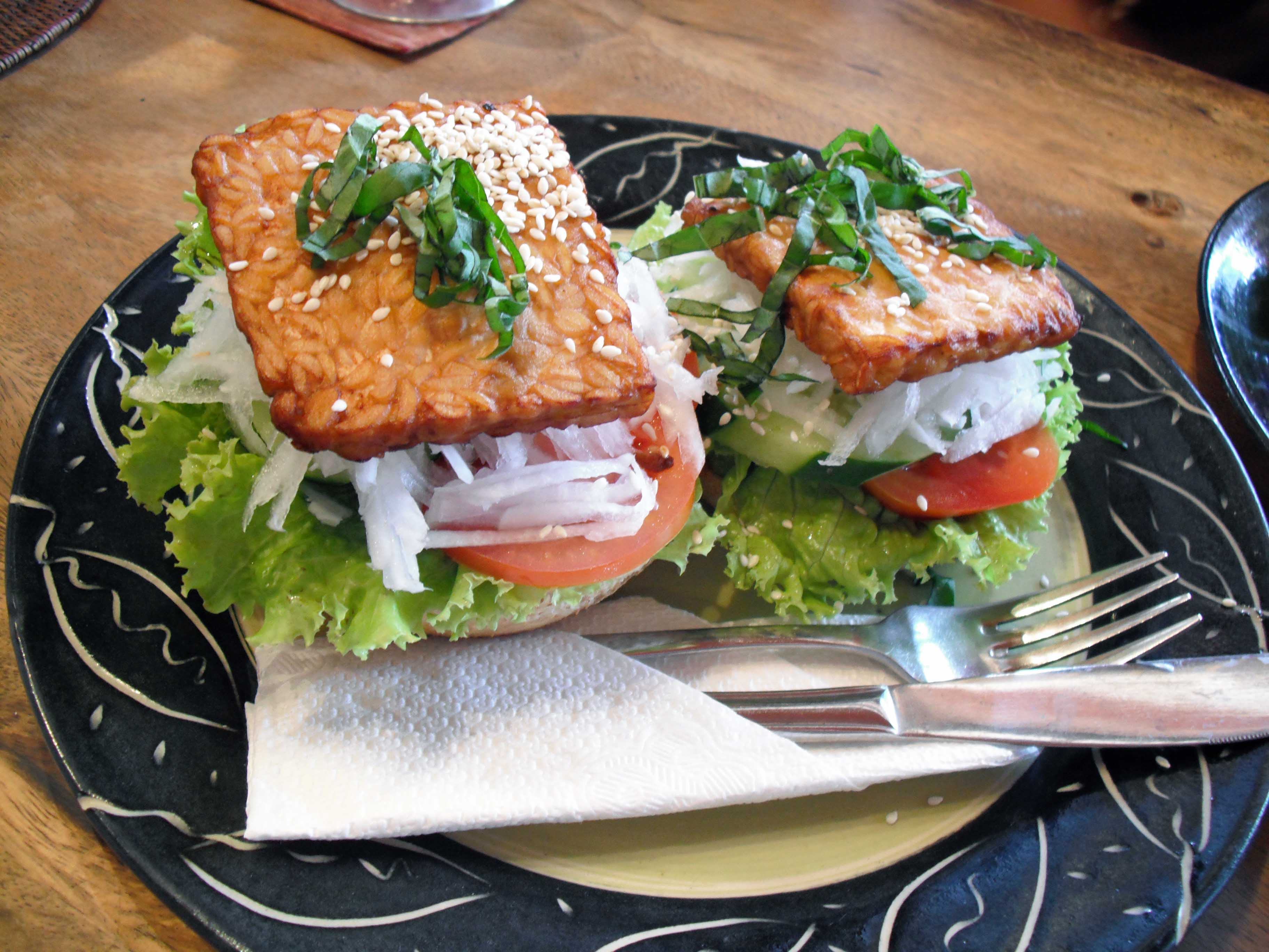 Sandwich made of tempe, eaten at the Juice ja Cafe in Ubud in Bali, Indonesia.